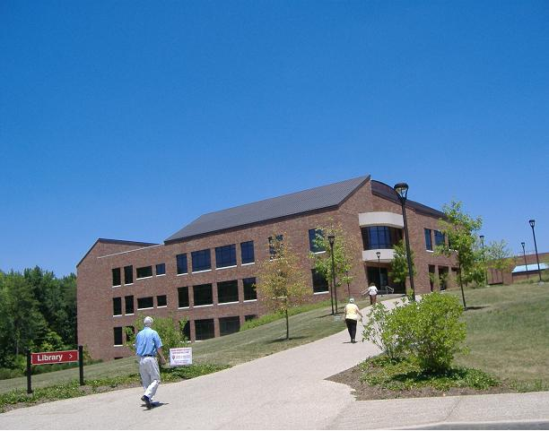 The library of Indiana University Southeast.